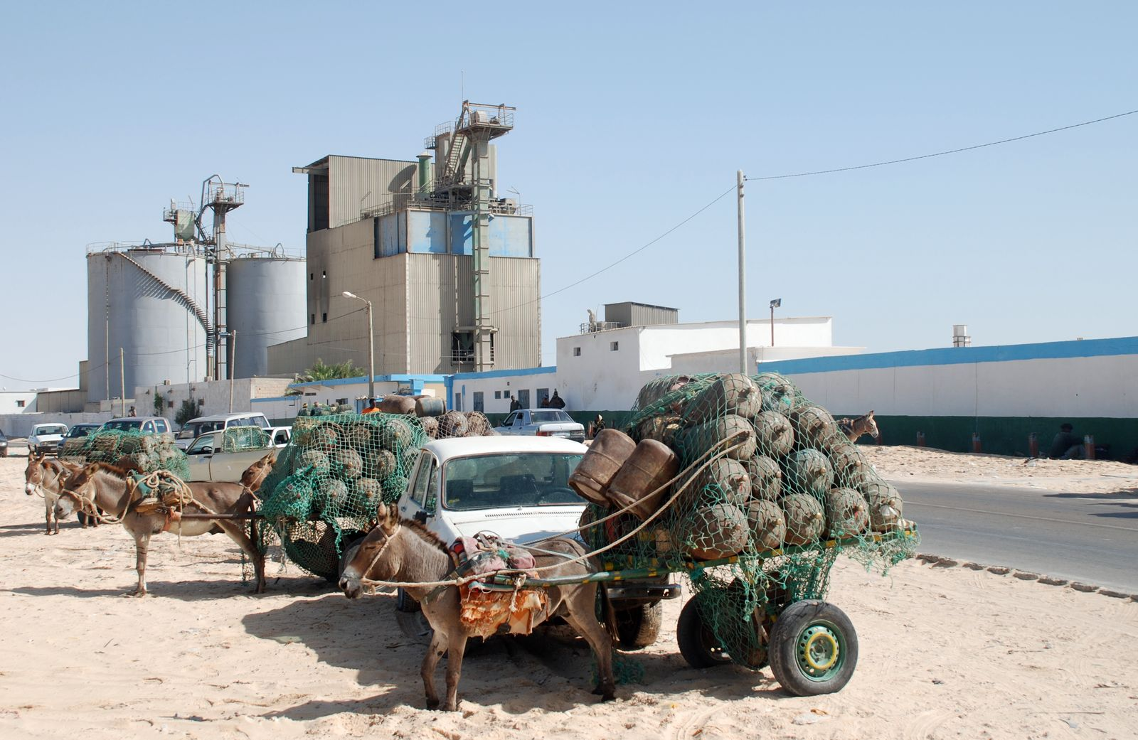 Nouadhibou, Mauritania, cooking gas filling station